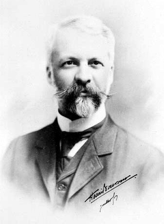 Henri Bourassa - Canadian politician and journalist